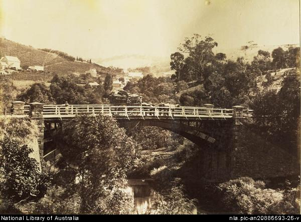 nla.pic-an20886593-26 PIC Album 951 Sweet, Samuel White, 1825-1886. Clarendon Bridge [with 4-horse cart loaded with wood] [picture]. between 1869 and 1889. 1 photograph : gelatin silver ; 20 cm. x 14.5 cm. Part of Captain Sweet's views of South Australia [picture]. Taken from Category:Images of Adelaide Hills